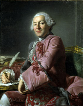 Senior Surveyor to the Royal Household and architect